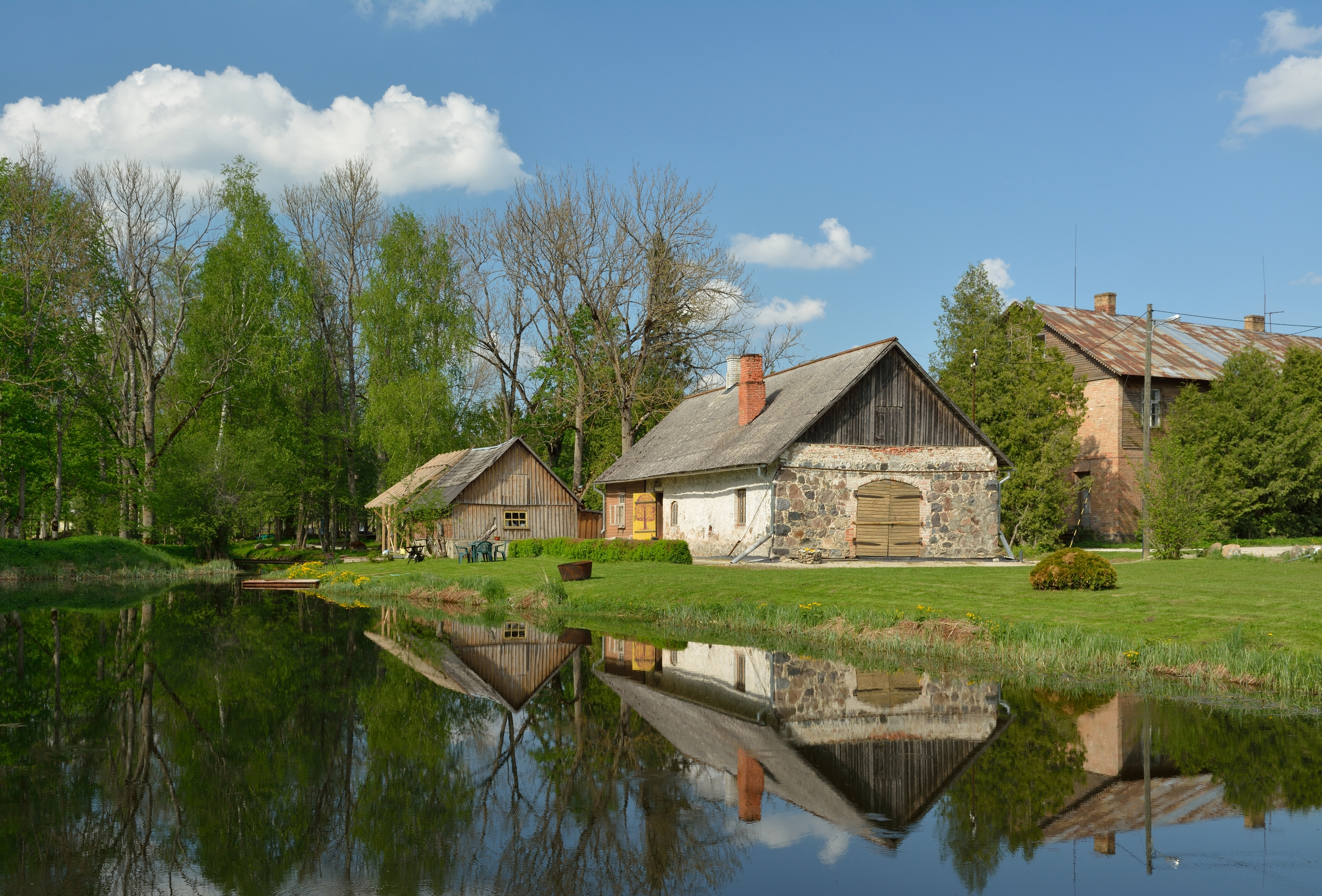 Lustivere manor smithy